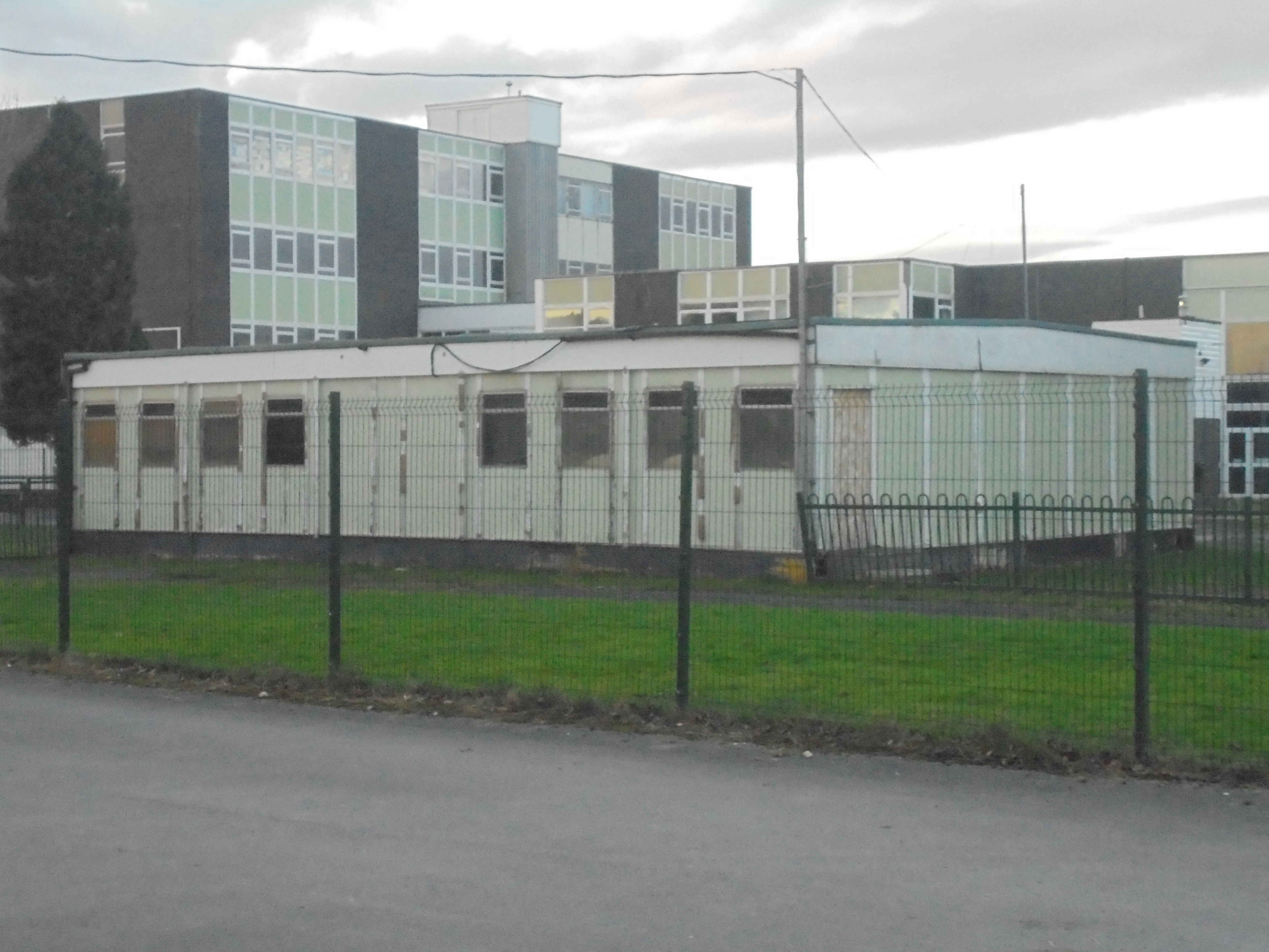 Wetherby High School, Hallfield Lane, Wetherby, West Yorkshire. Taken on the afternoon of Sunday the 1st of January 2019.